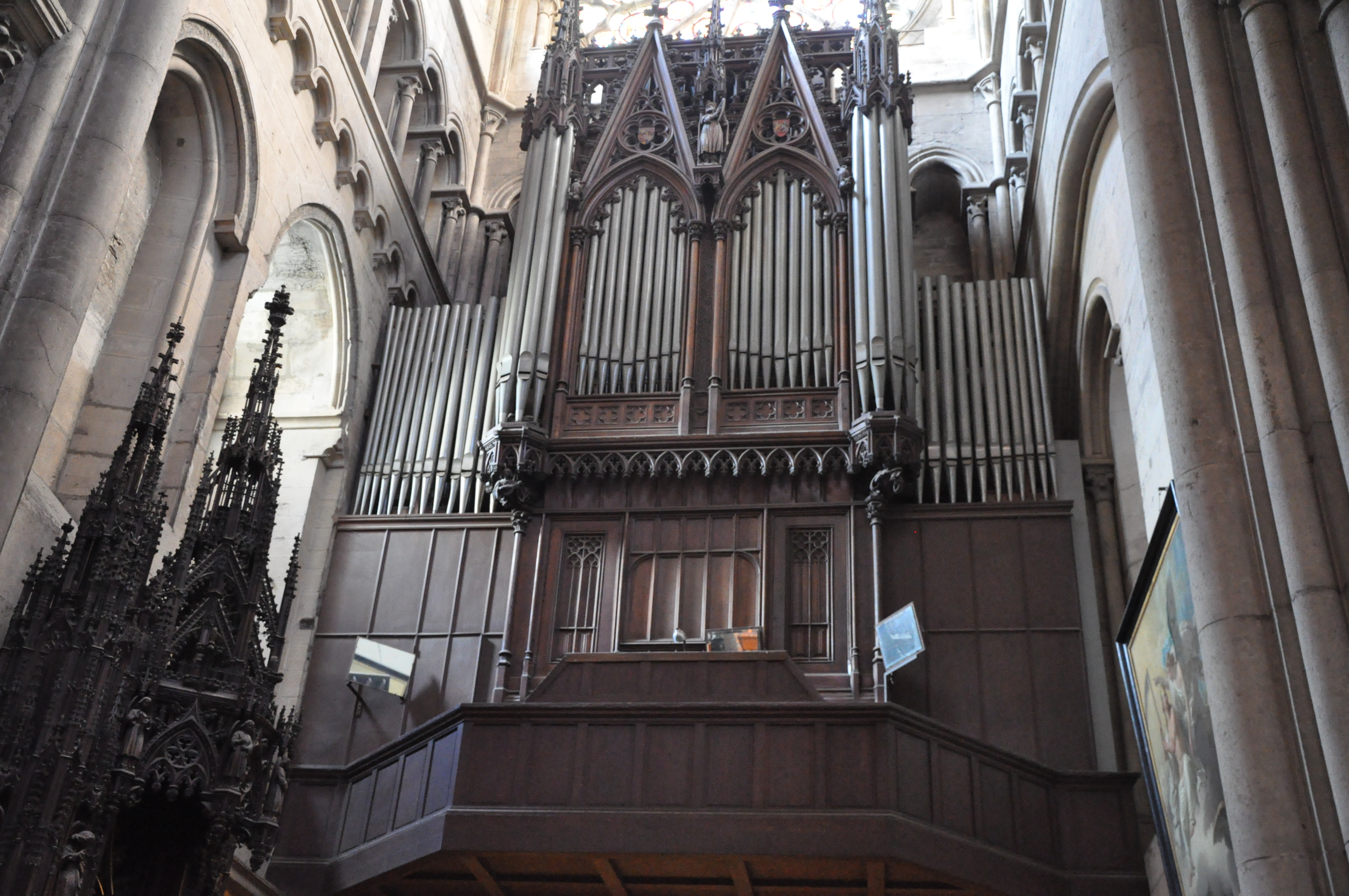 Pipe organ in St Jean cathedral in Lyon (Rhône, France), built in 1841 by the Manufacture Daublaine & Callinet.